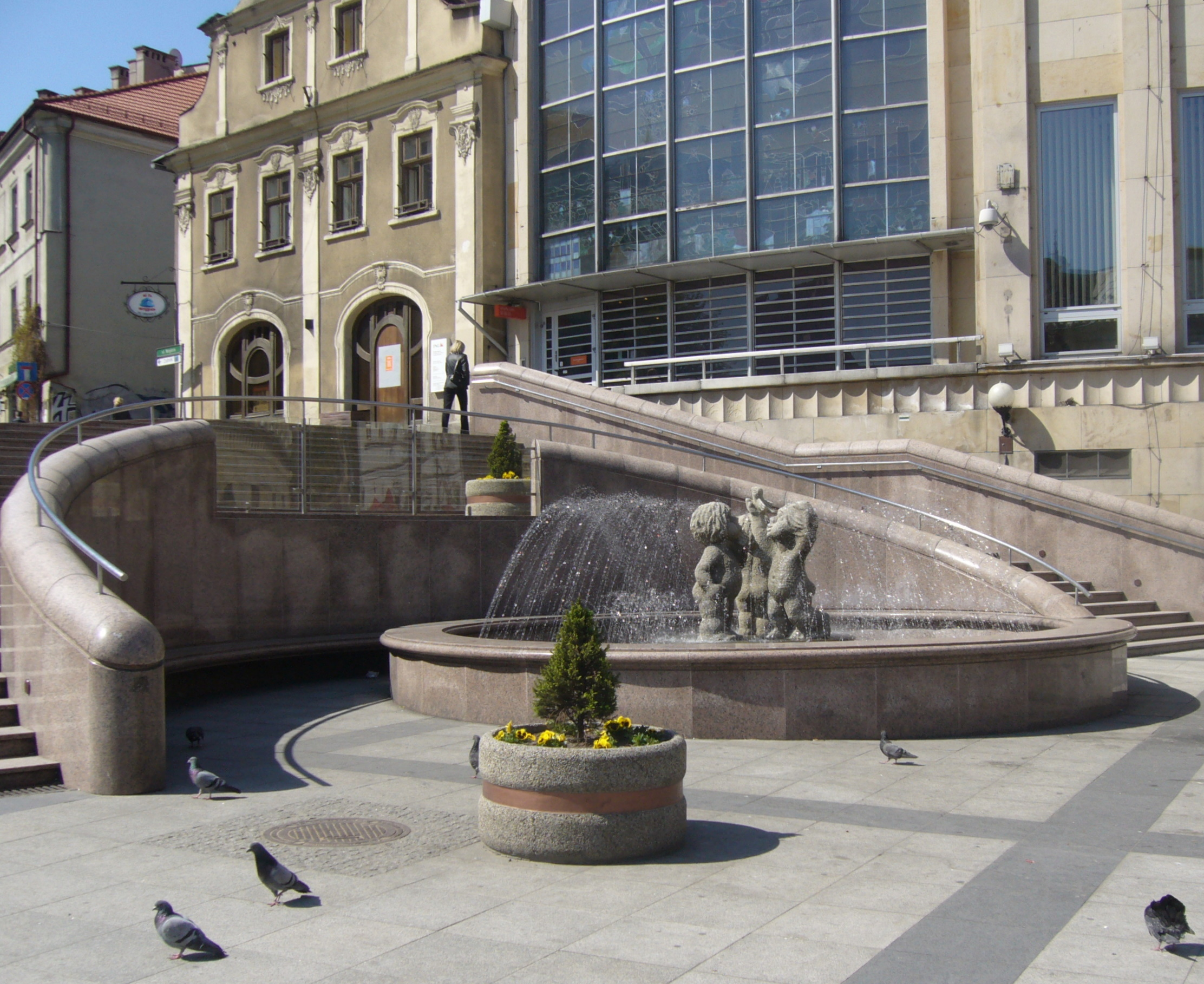 Fountain on Bolesław Chrobry Square in Bielsko-Biała, Poland.